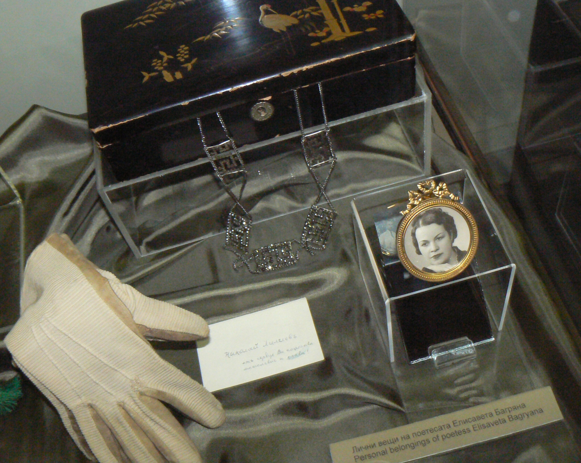 Personal belongings of the poetess Elisaveta Bagriana. Exhibits of the National History Museum of Bulgaria